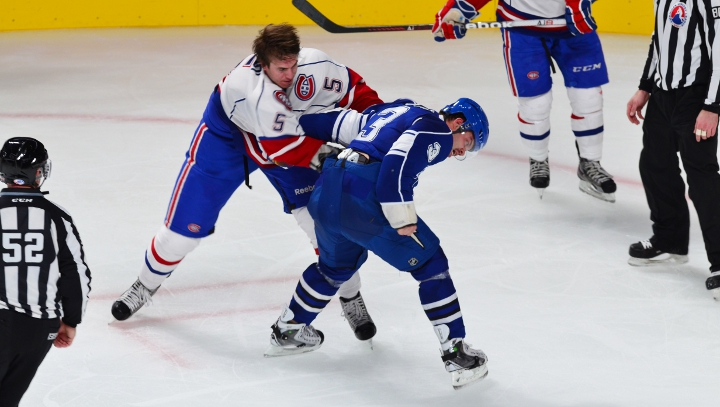 Jarred Tinordi vs. Radko Gudas, in a game between the Hamilton Bulldogs and the Syracuse Crunch at the Bell Centre of Montreal.